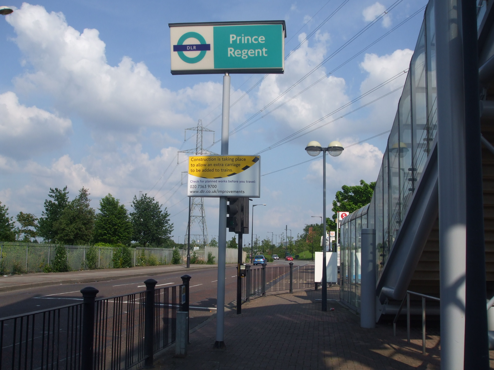 Entrance to Prince Regent DLR station